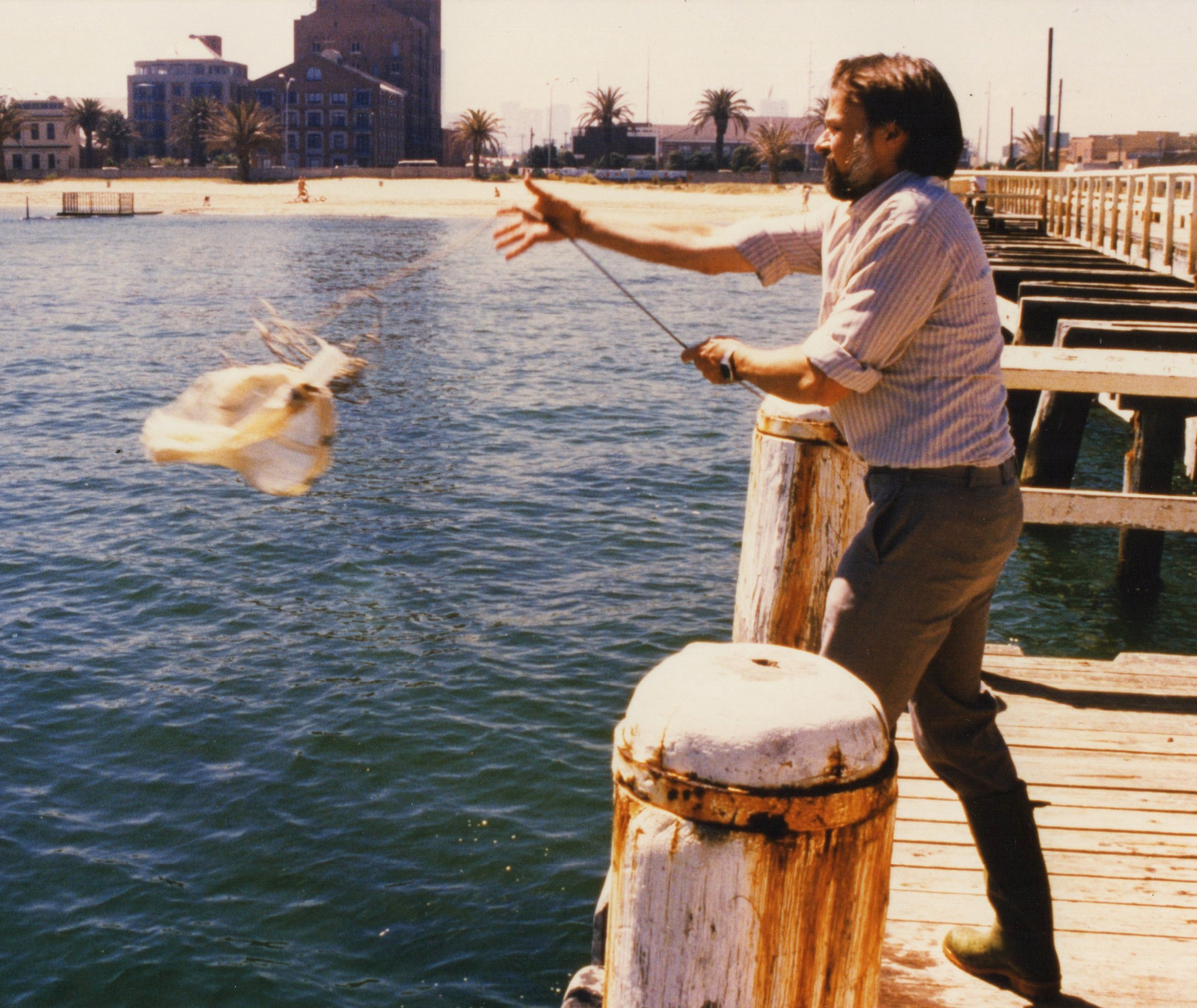 Professor Øjvind Moestrup (Danish biologist) sampling for phytoplankton off Adelaide, Australia, 1988 (Tony Rees photograph)